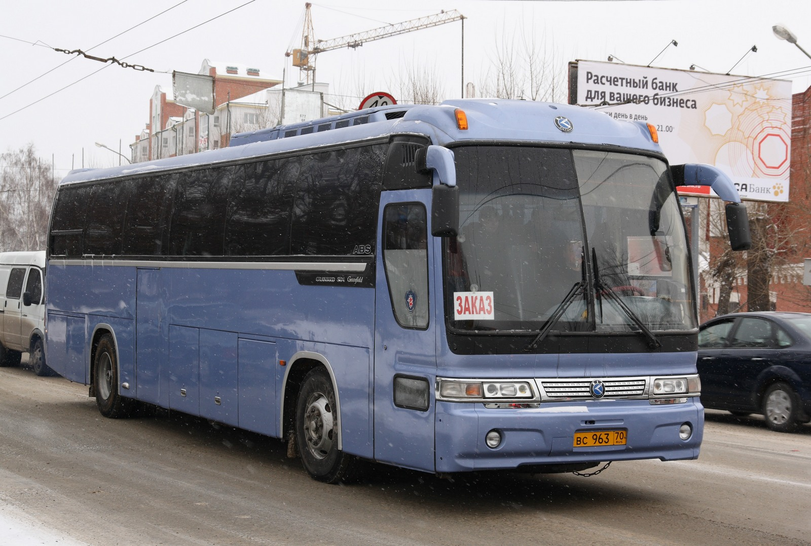 Kia Granbird bus with aftermarket 2nd door